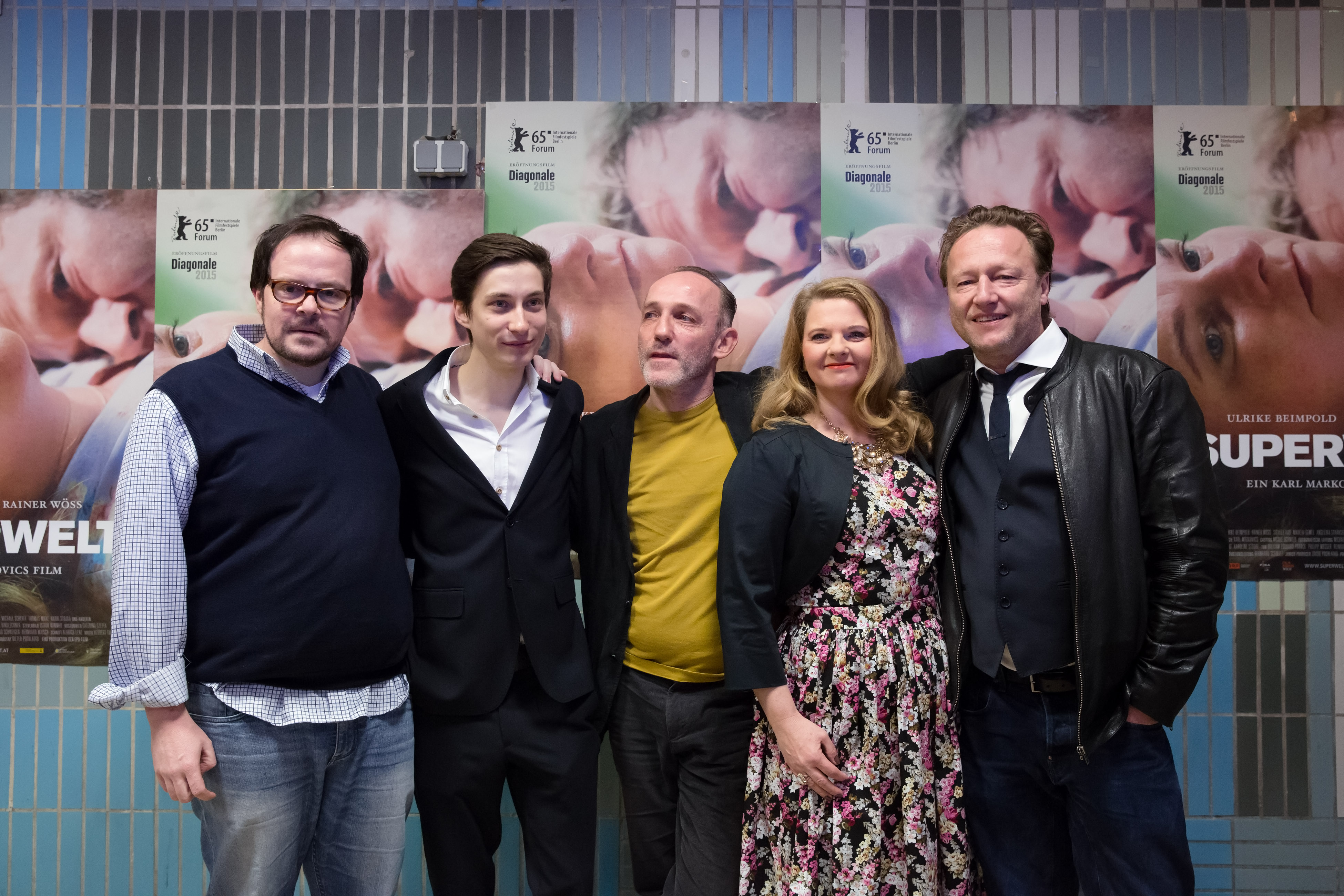 l.t.r.: Thomas Mraz, Nikolai Gemel, Karl Markovics, Ulrike Beimpold and Rainer Wöss at the Viennese premiere of Superwelt at Gartenbaukino in Vienna, Austria.